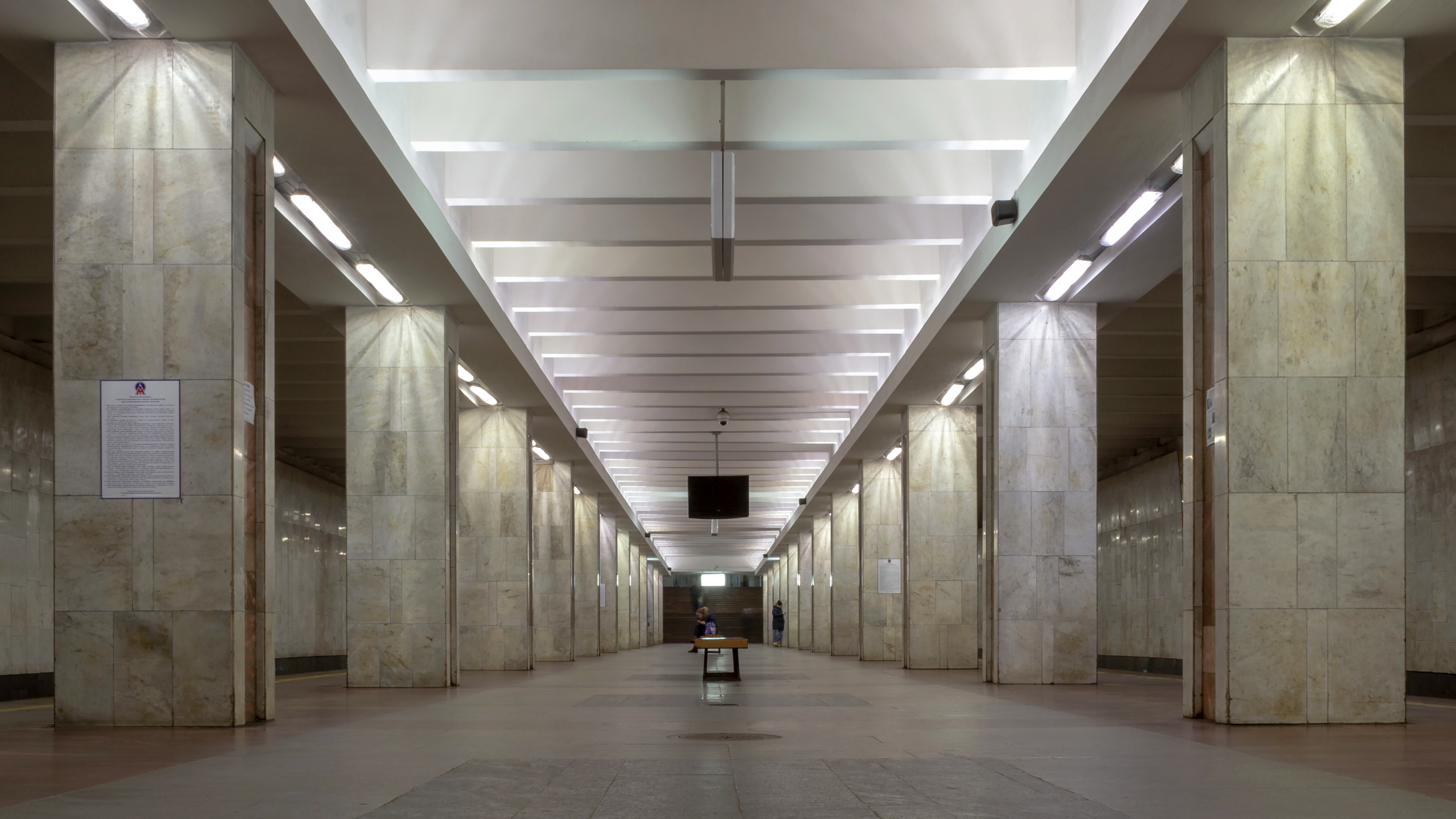 Proletarskaya metro station in Nizhny Novgorod, Russia.